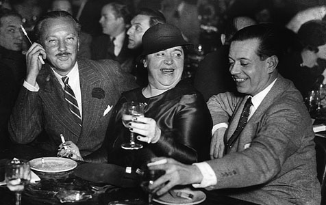 Elsa Maxwell (centre), with William Rhinelander Stewart (left) and Cole Porter